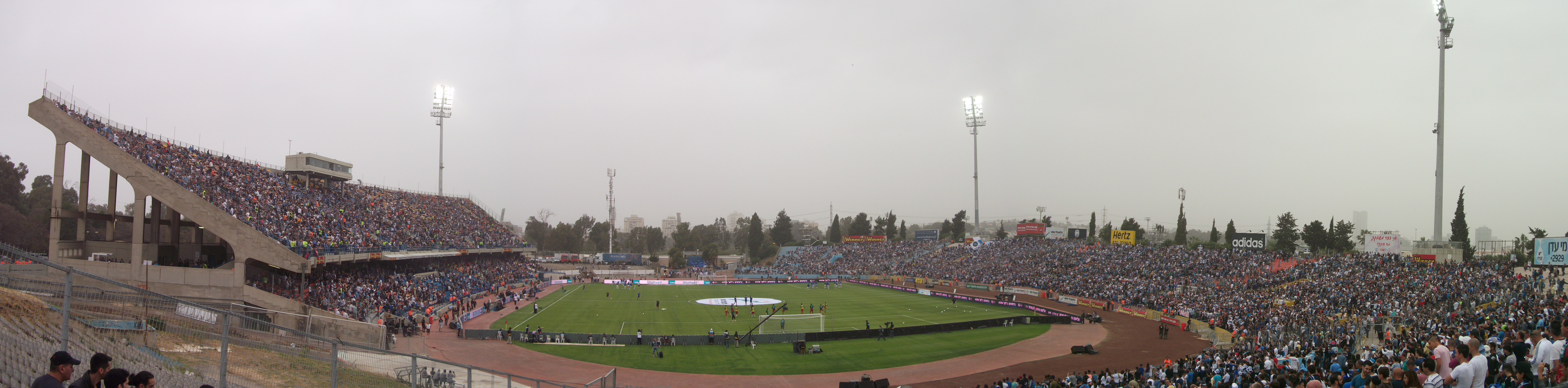 Ramat Gan Stadium